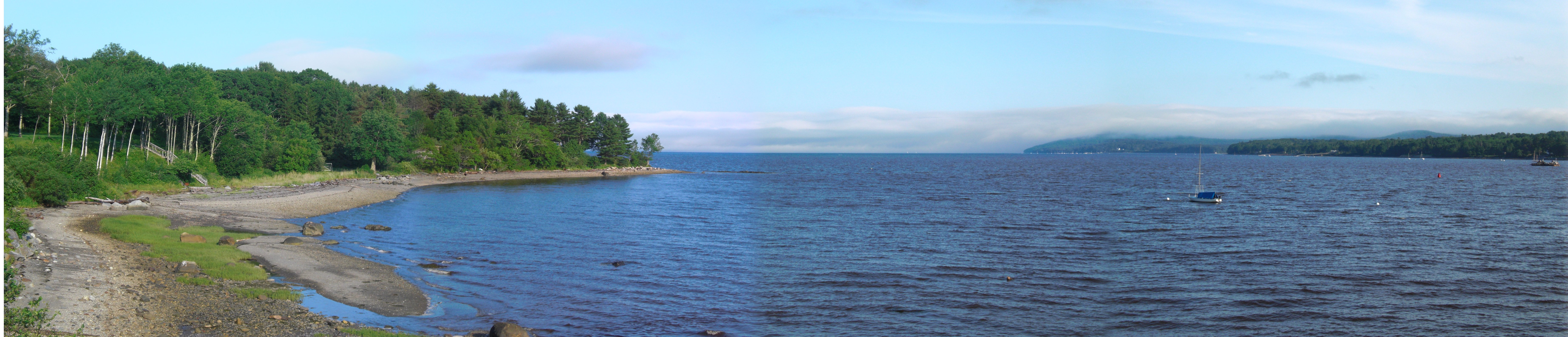 Panoramic view of beach and harbor at Belfast, Maine